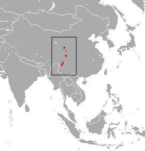 Lamulate Shrew (Chodsigoa lamula) range